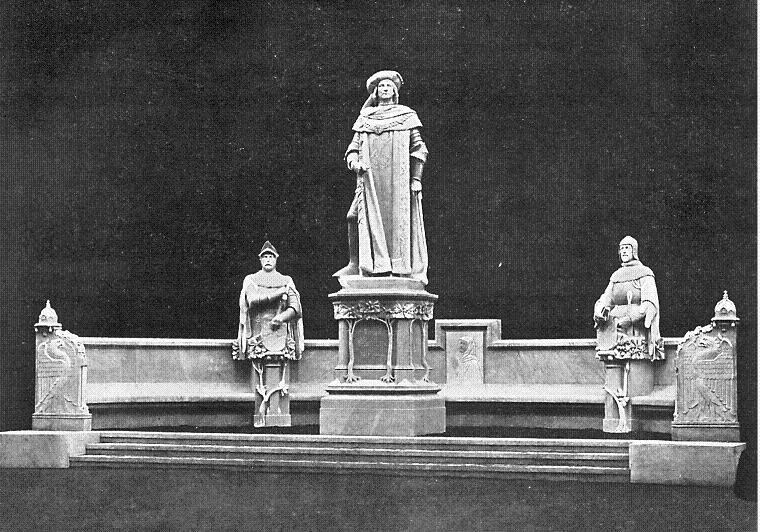 Monument group № 15 in the former Siegesallee in Berlin commemorates Brandenburg’s Margrave and Elector (1371–1440) Frederick I. The bust on the left commemorates the knight Count Johann von Hohenlohe (House of Hohenlohe), and the bust on the right the Landeshauptmann Wend von Ileburg. The relief shows the Electress Elisabeth of Brandenburg. Sculptor: Ludwig Manzel. The sculpture was unveiled on 28 August 1900.